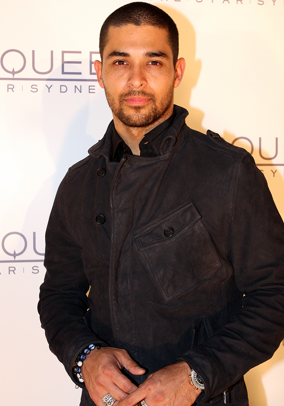 Wilmer Valderrama at the Paris Hilton: Marquee The Star Sydney 2012.